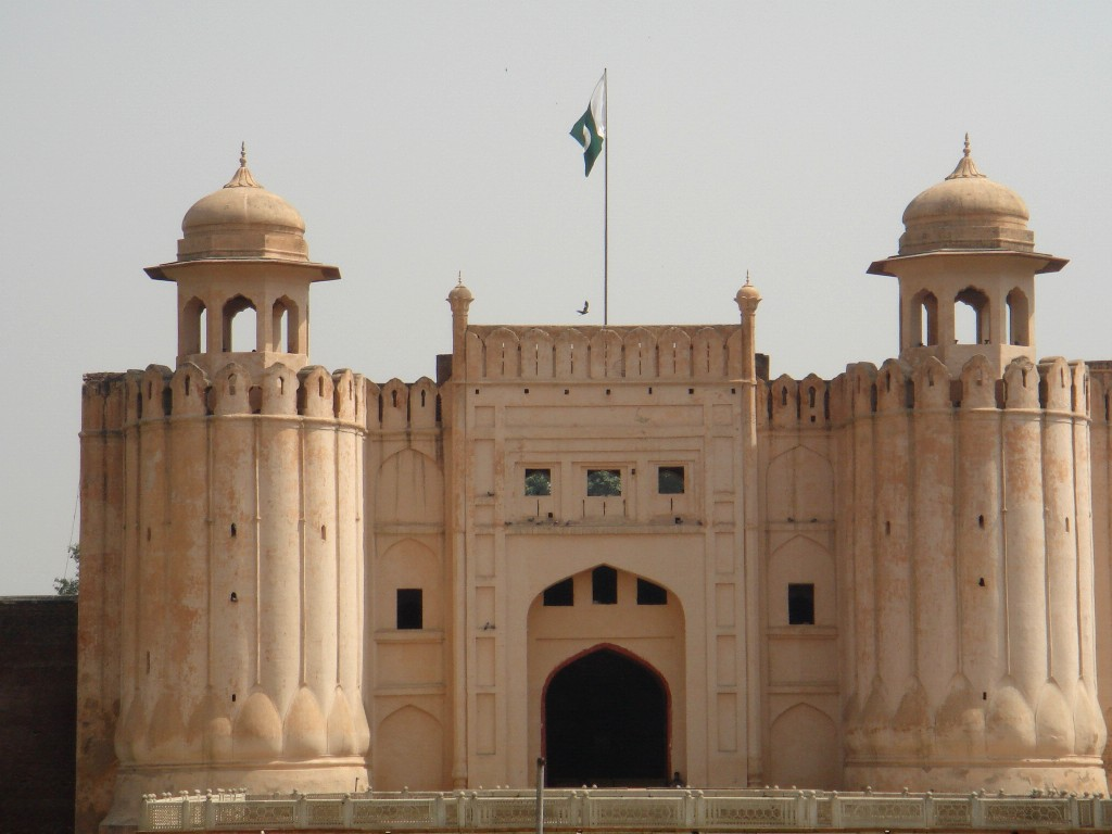 Picture by Kaiser Tufail, 25 Sep 2006